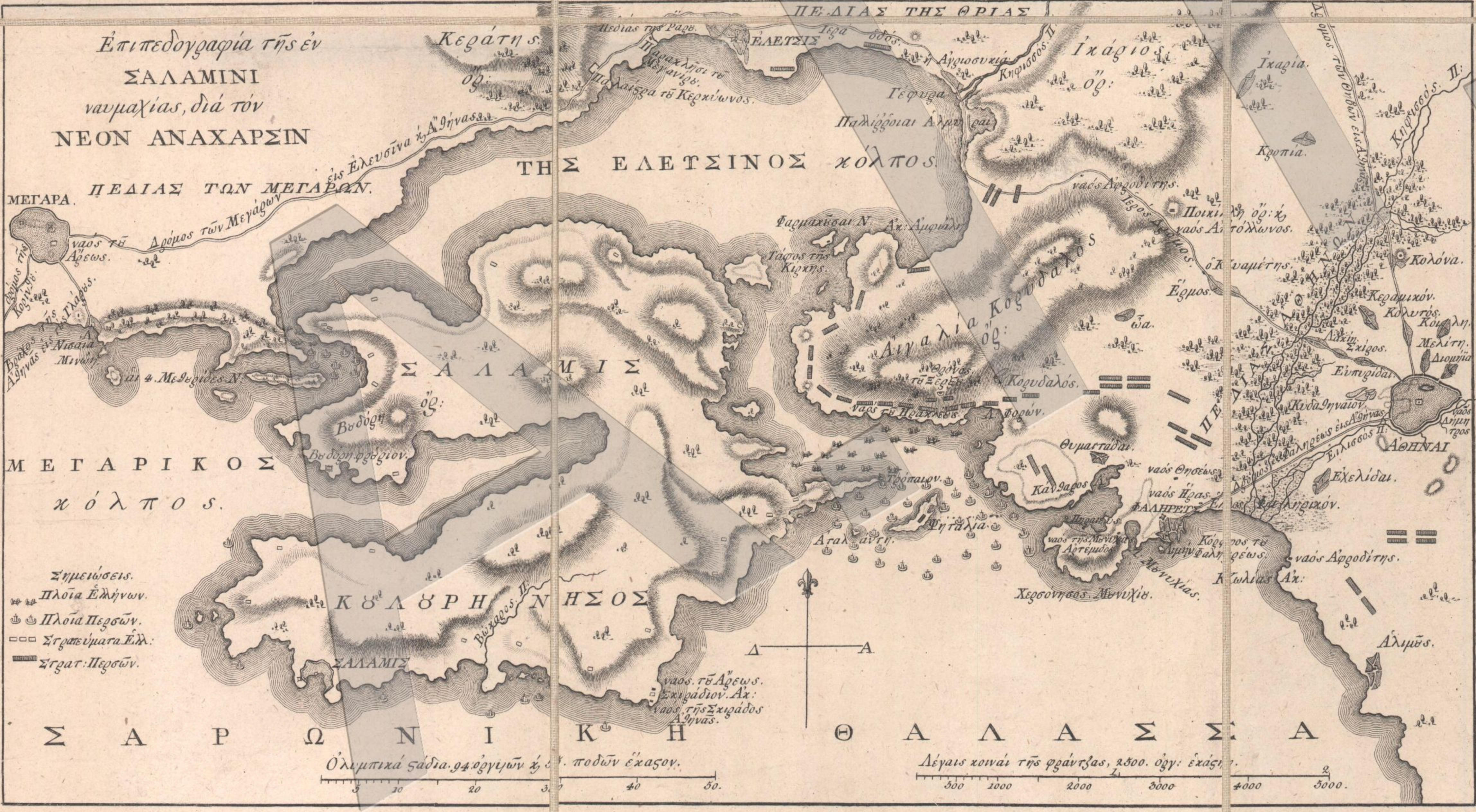 (Part 7 - Salamis) Charta of Greece / Rigas Charta, Rigas Velestinlis, 1797